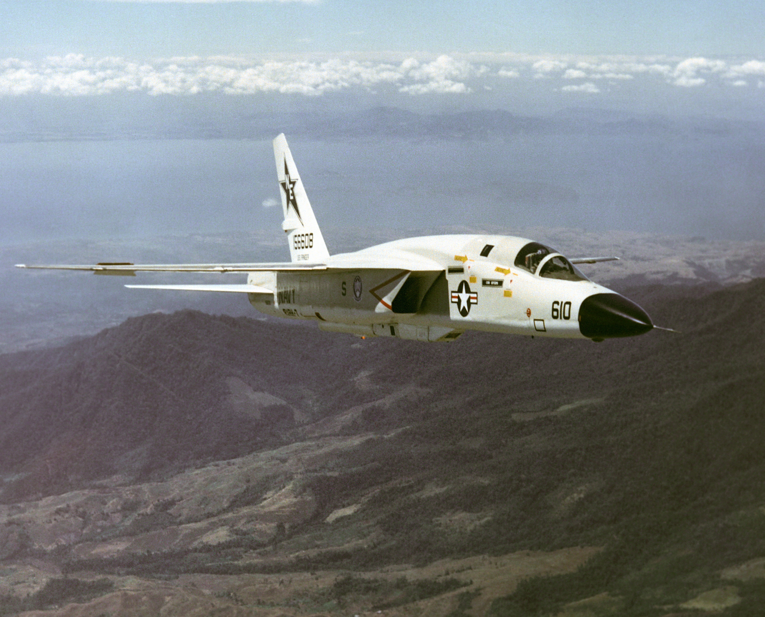 A three-quarter portside aerial view of an RA-5C Vigilante aircraft (b/n 156608), Reconnaissance Attack Squadron 7 (RVAH-7) known as the "Peacemakers of the Fleet" and was assigned to the USS RANGER (CV 61) from February 21 to September 22, 1979. This photograph may show the Vigilante's last flight, since all Vigilante aircraft were officially retired in September 1979 and the RVAH-7 was officially decommissioned in October 1979.